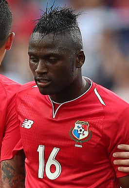 Abdiel Arroyo